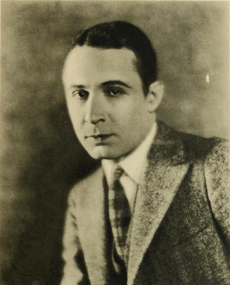 Monte Blue, Stars of the Photoplay. 1924.